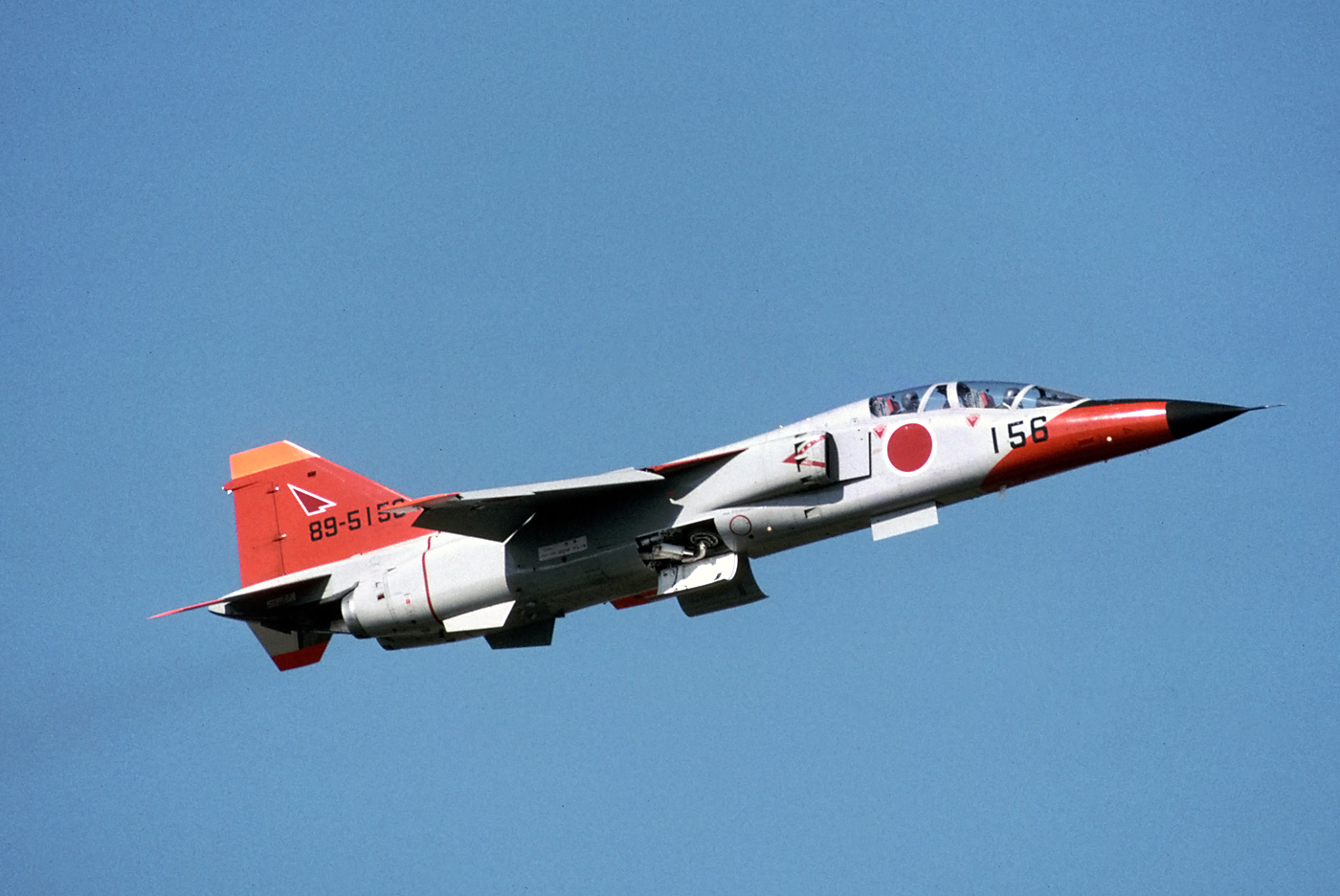 A T-2 advanced trainer taking-off from Matsushima in 1994.